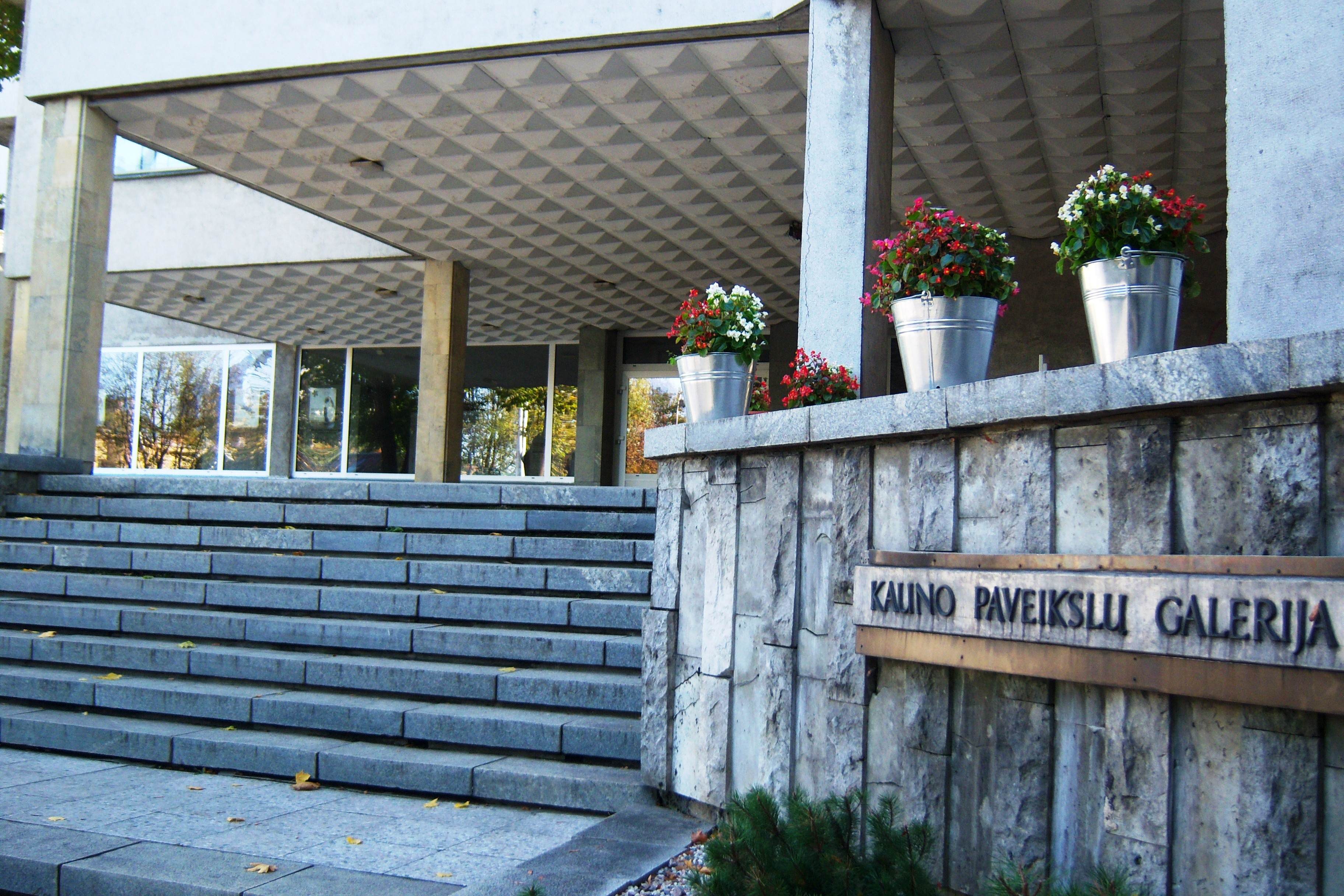 Kaunas Picture Gallery. Metal accents. Lithuania